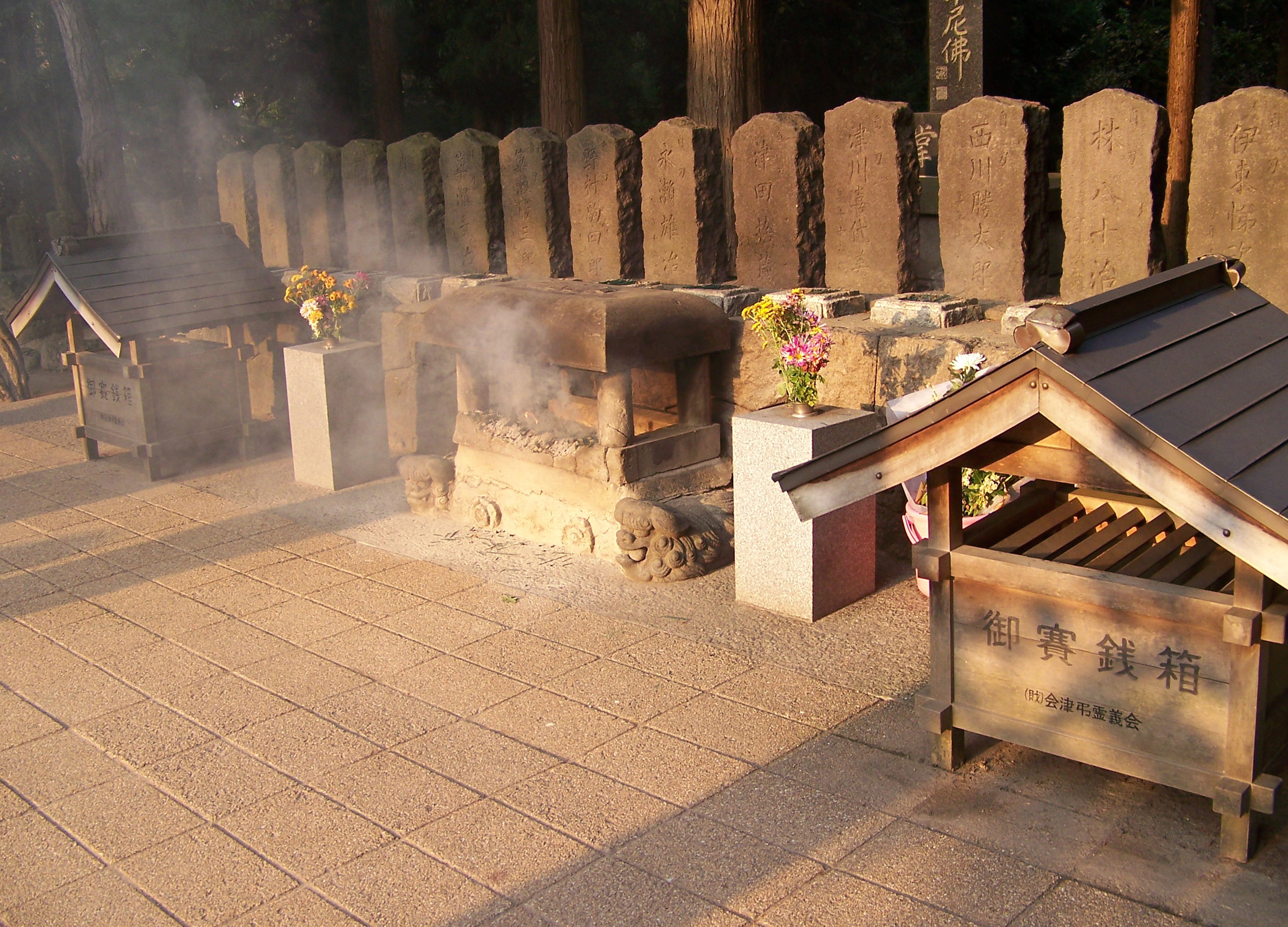 Shrine to the Byakkotai warriors at Iimori Hill, Aizu-Wakamatsu, Fukushima Prefecture, Japan. Photo by uploader. Taken 4 November 2006.